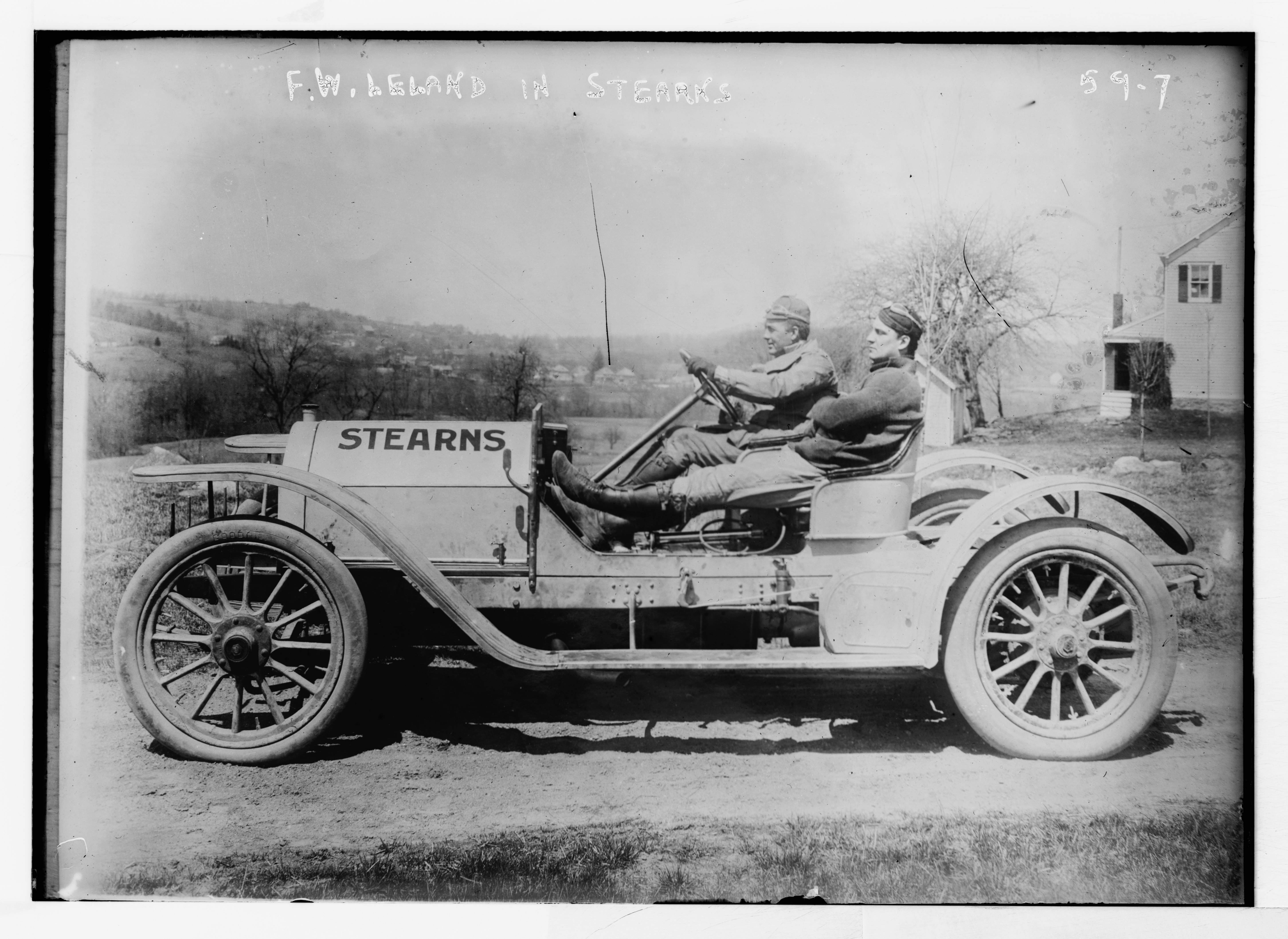 Title: Briarcliff Auto Race] F.W. Leland in "Stearns" Abstract/medium: 1 negative : glass ; 5 x 7 in. or smaller.